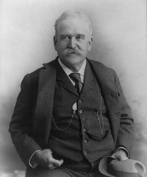 Massachusetts Governor, United States Secretary of the Navy John Davis Long.